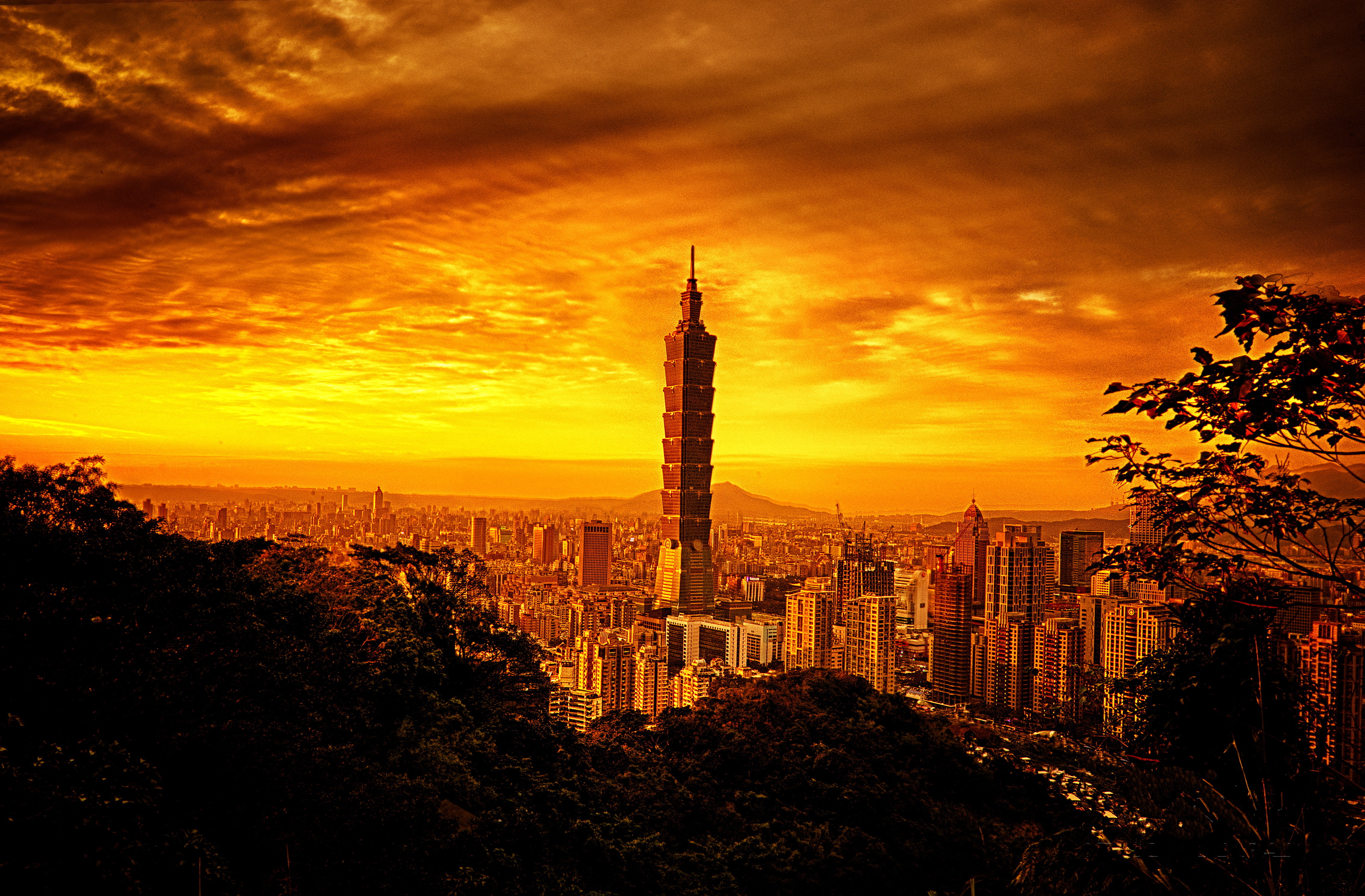 Taipei, Taiwan skyline at dusk in 2016